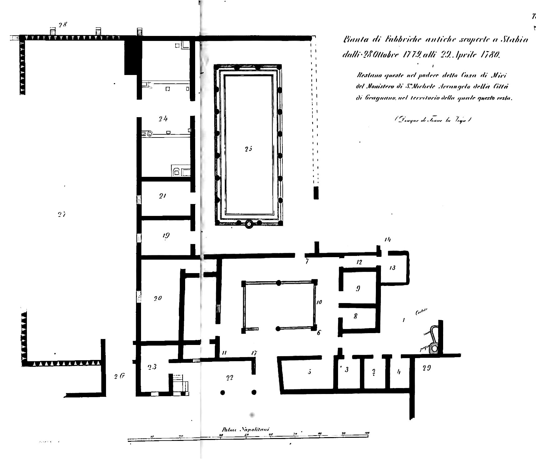 Plan of Villa casa dei Miri